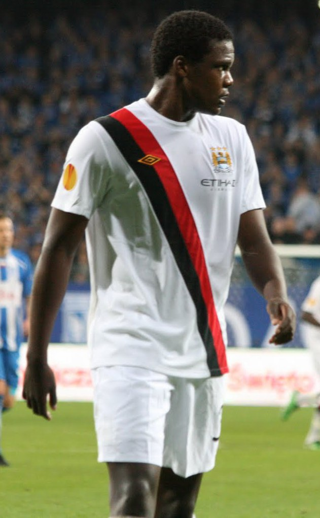 Dedryck Boyata